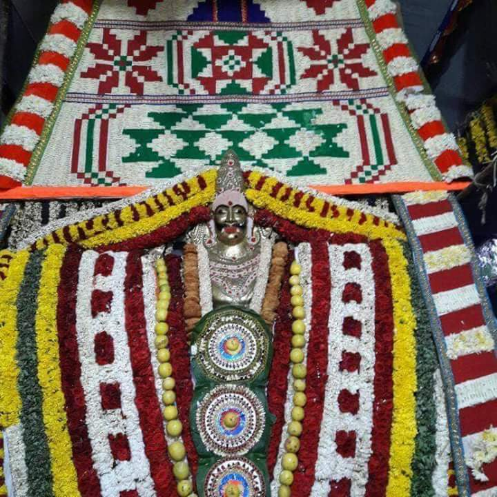 Arulmigu Shri. Vadaku-Athiyan Sudalai Mada Swamy, Sanganapuram, Tirunelveli Rural